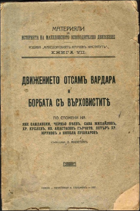 Yane Sandanski, Chernyo Peev, Sava Mihaylov, Hristo Kuslev, Ivan Anastasov Garcheto, Petar Yurukov and Nikola Pushkarov's Memoirs